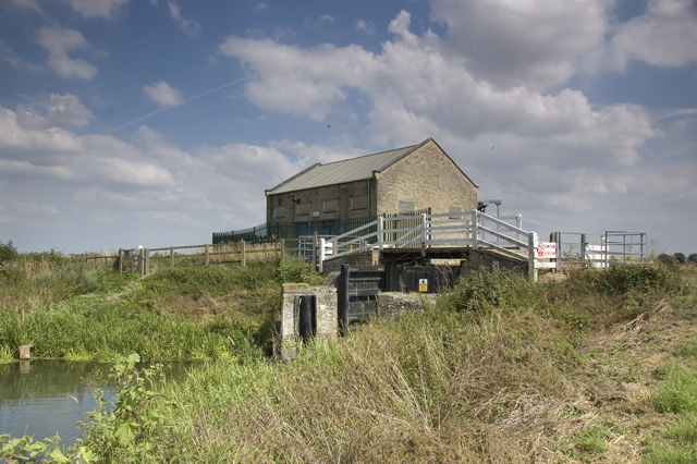 Pumping station and flood gates at the head of Bottisham Lode, Cambridgeshire, England Lock at the head of Bottisham Lode